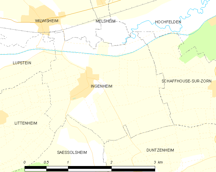 Map of French municipality